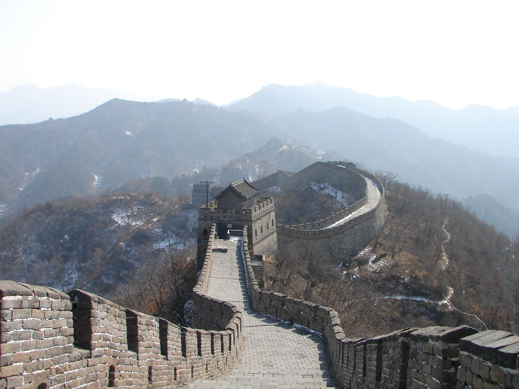 A part of the Mutianyu section of the Great Wall of China, empty at lunchtime.